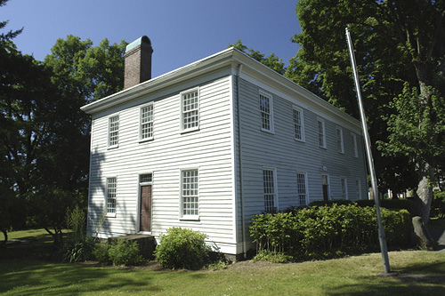 jo0748 Oregon City OR Oregon John McLoughlin House National Historic Site Georgian Home AJD52053 Oregon City OR Oregon John